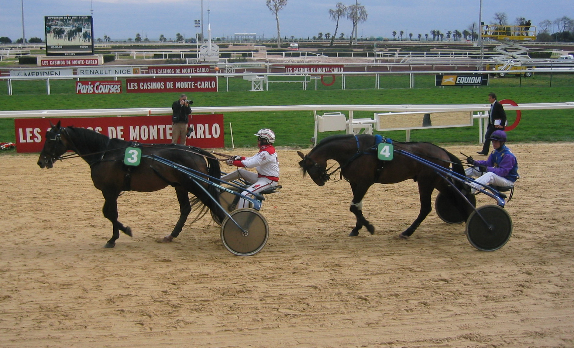 Lass Drop and Jos Verbeeck (n°3) - Nijinski Blue and Pierre-Yves Verva (n°4) in Critérium de vitesse, Cagnes-sur-Mer 2008